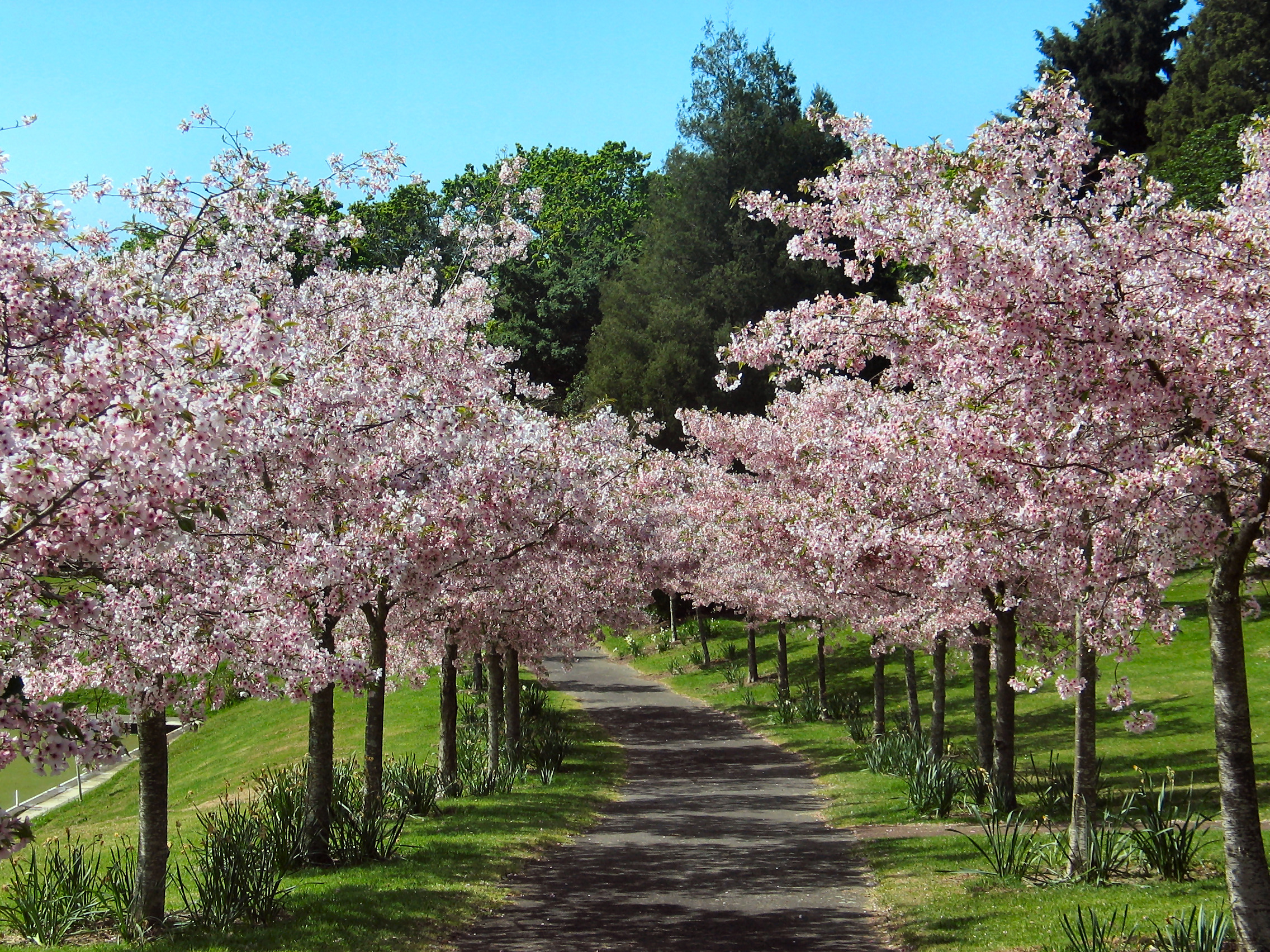 Cherry grove, Auckland Domain, Auckland, New Zealand. Taken September 30, 2006.